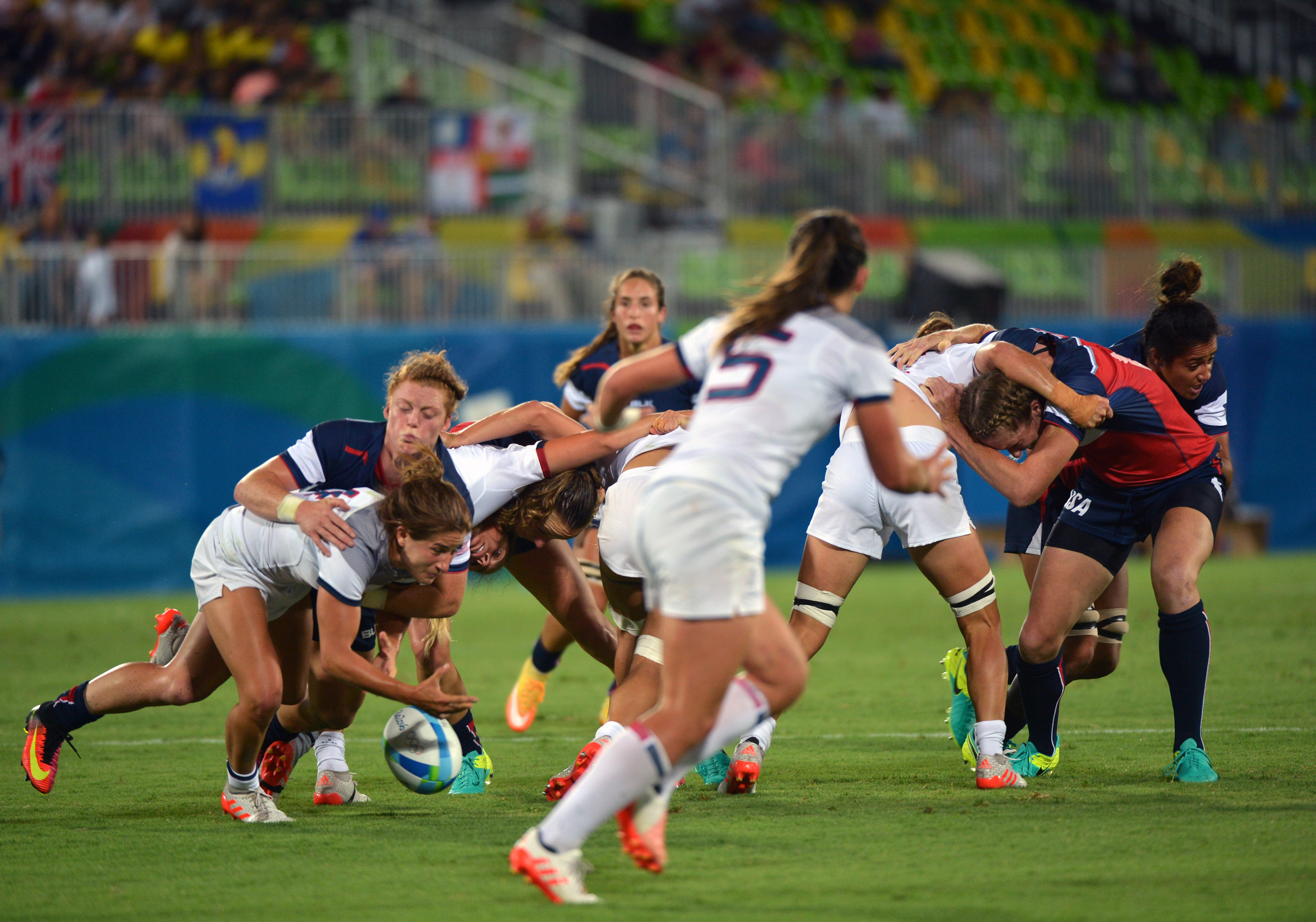 The U.S. women's rugby sevens squad, seen here posting a 19-5 victory over France on Aug. 8, played smothering defense orchestrated by U.S. Army Capt. Andrew Locke en route to a fifth-place finish in the Rio Olympic Games tournament at Deodoro Stadium in Rio de Janeiro. U.S. Army photo by Tim Hipps, IMCOM Public Affairs